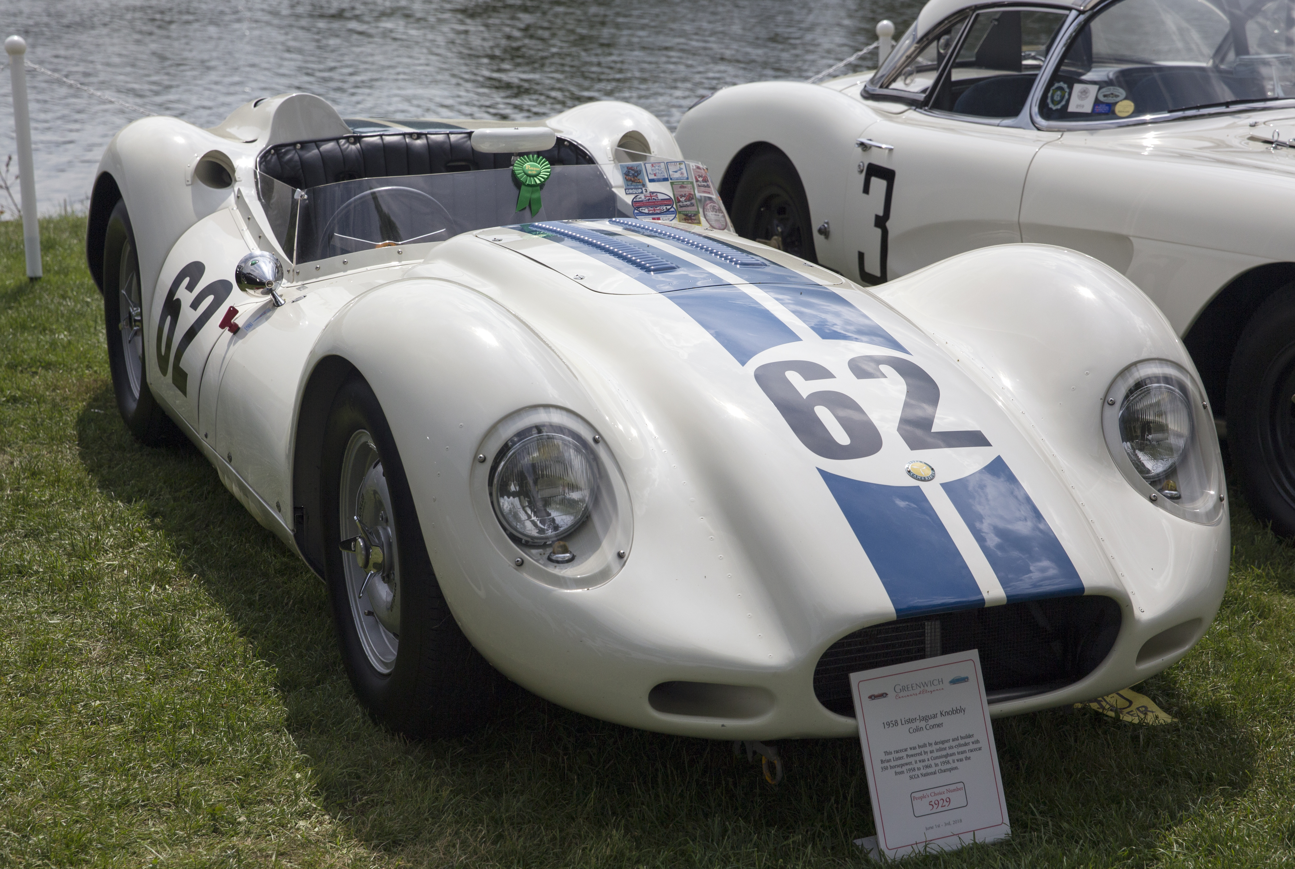 A 1958 Lister-Jaguar Knobbly at the 2018 Greenwich Concours d'Elegance. This (chassis BHL-102) was a Cunningham Team SCCA racecar from 1958 until 1960, winning the 1958 SCCA national championship.